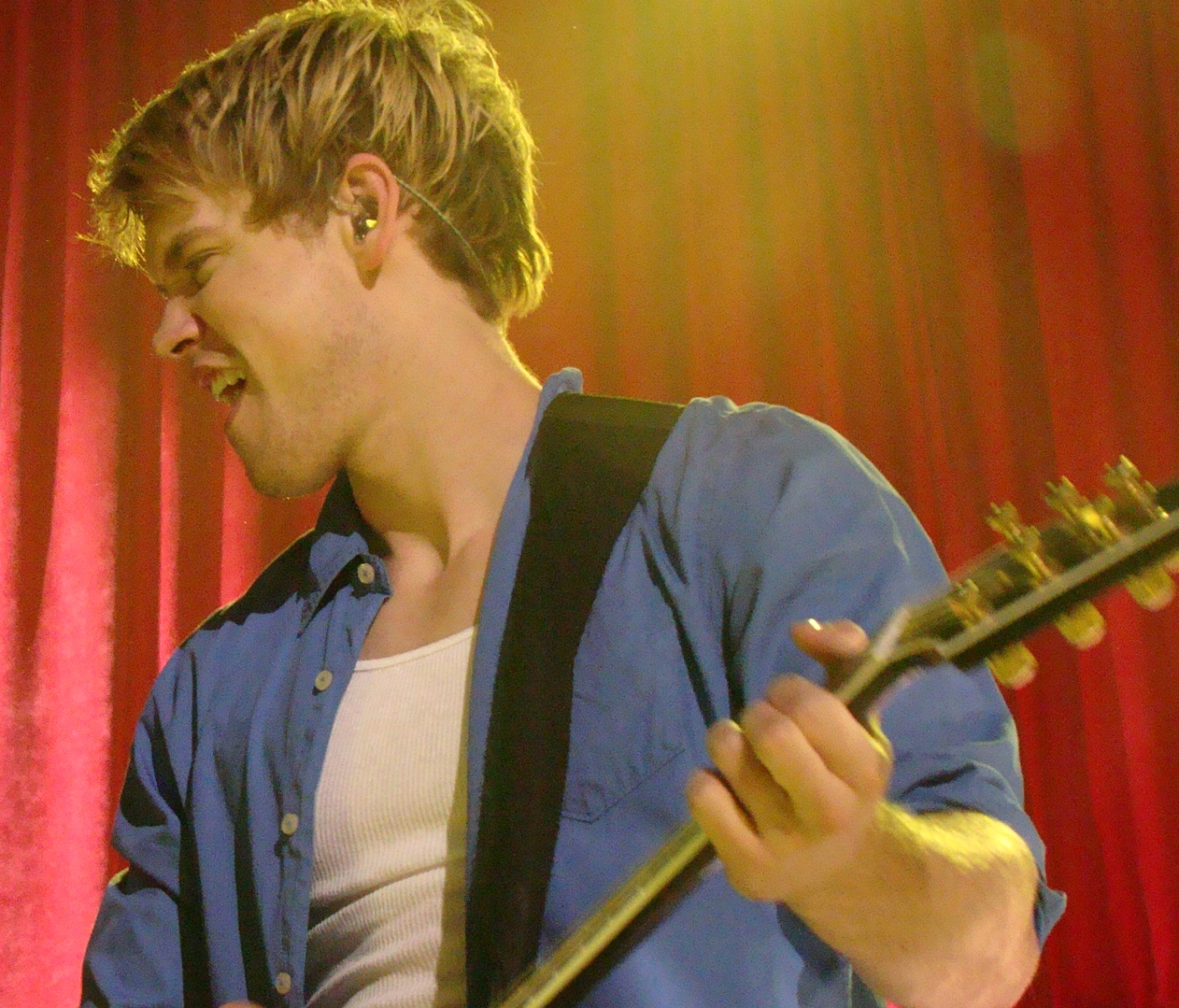 Chord Overstreet as Sam Evans, performing "Fat Bottomed Girls" on the Glee Live! In Concert! tour.